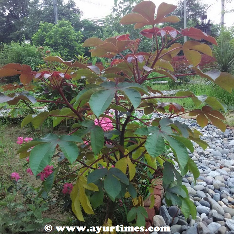 It is Croton Tiglium plant plant (also called Jamalgota plant).